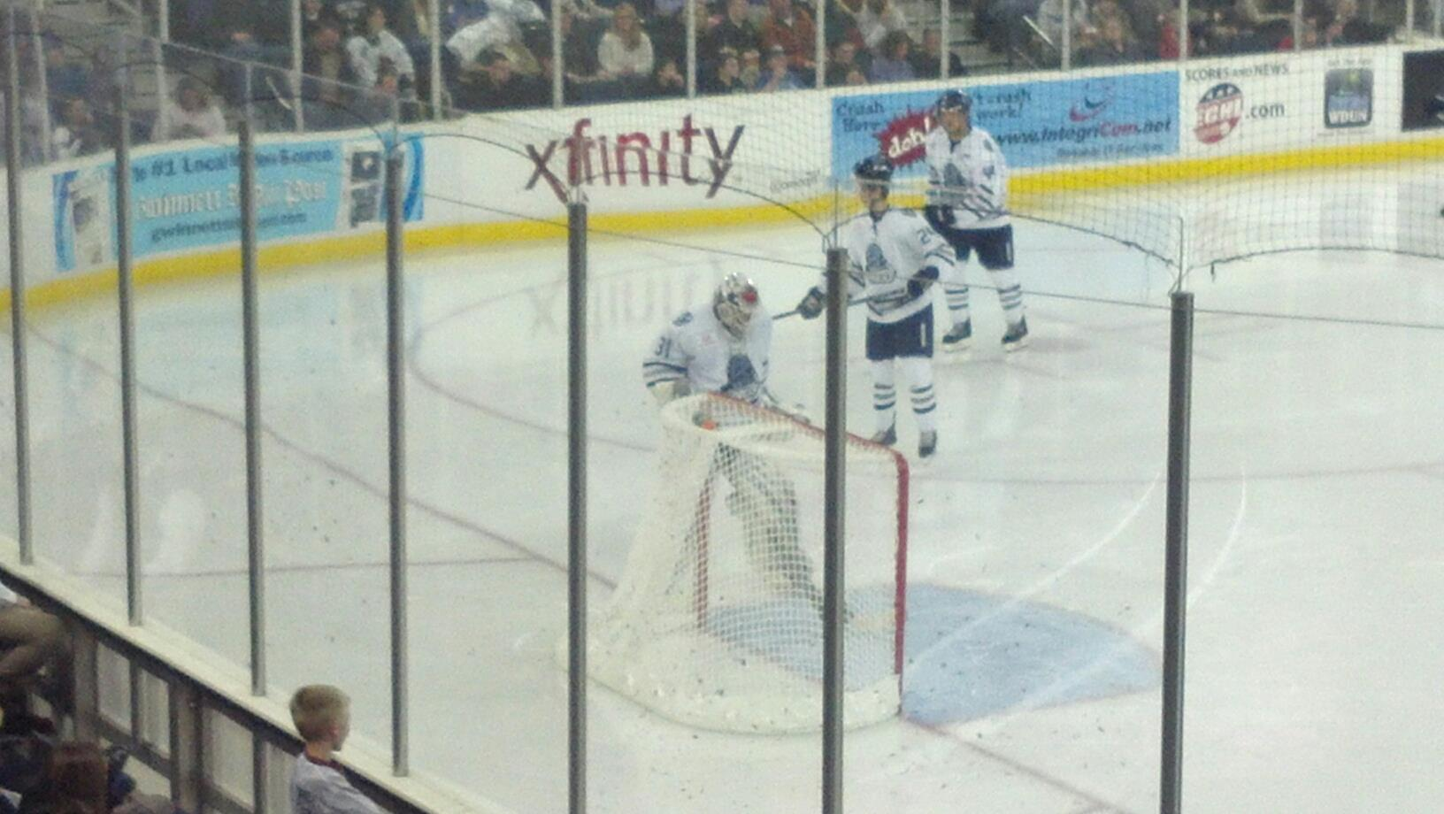 Peter Mannino preparing for an ECHL game